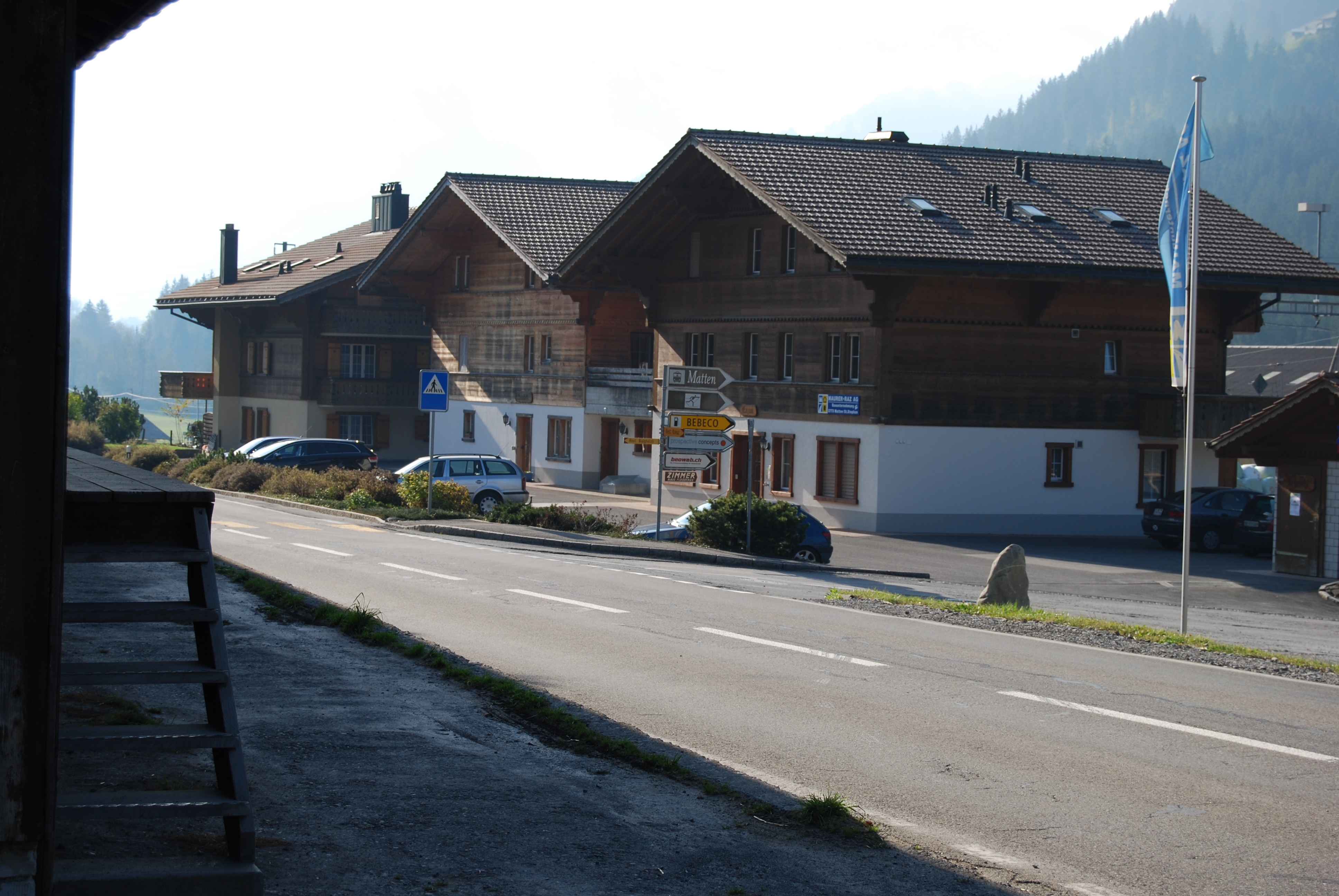 Matten im Simmetal, municipality of St. Stephan, canton of Bern, SwitzerlandEsperanto: Matten en Simme-Valo, komunumo Sankt-Stefano, Kantono Berno, Svislando